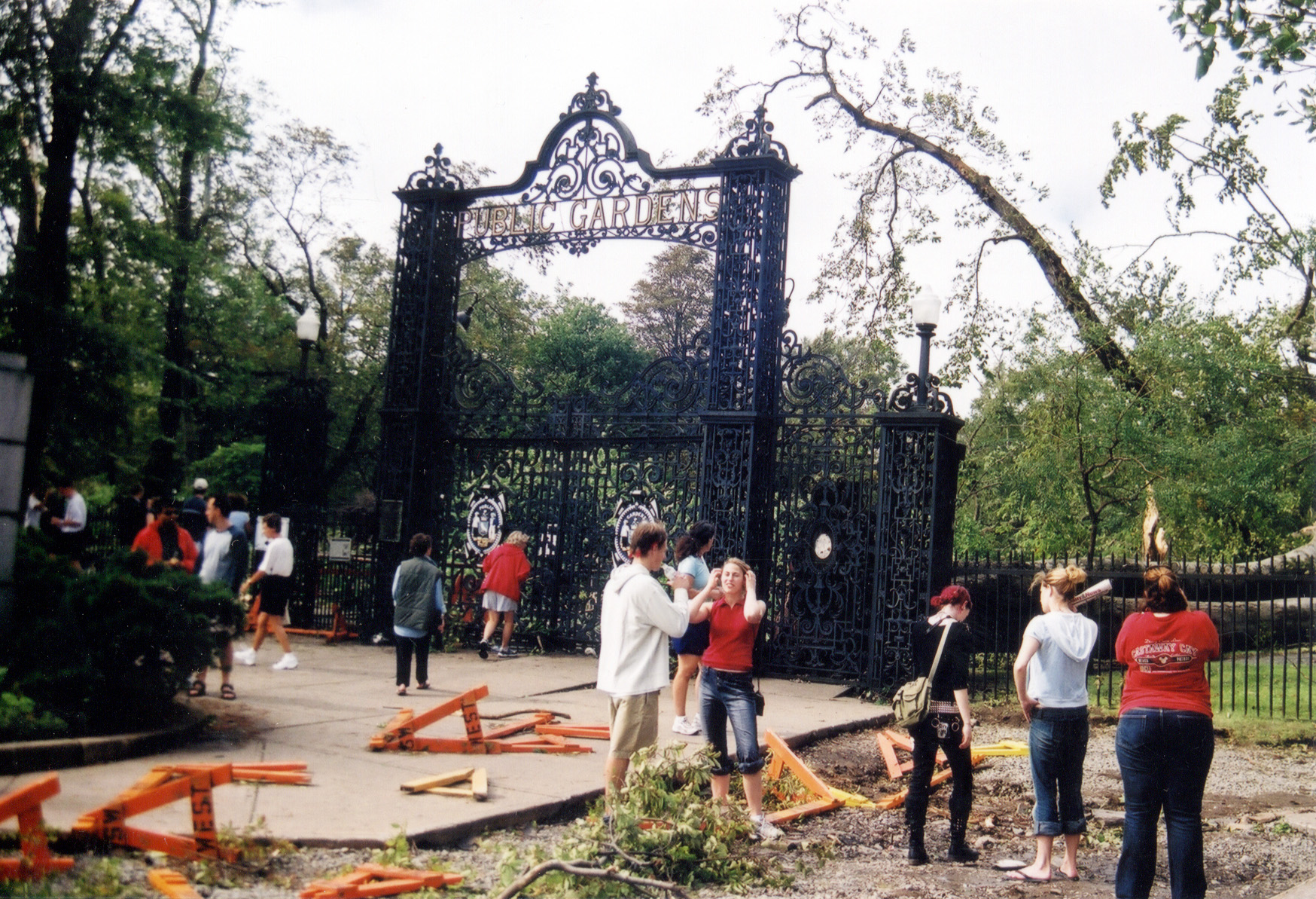 The same entrance on September 29, 2003